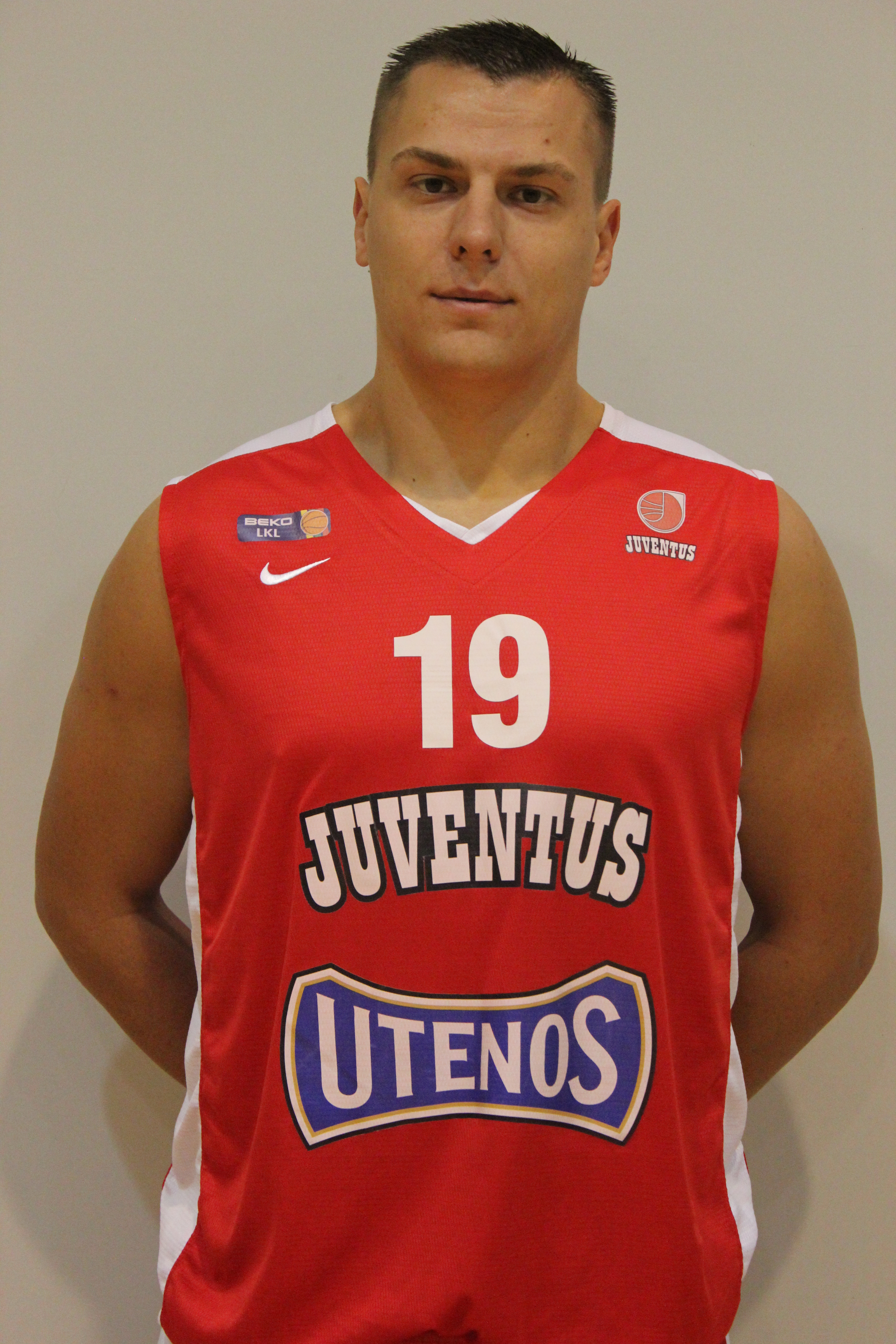 Photo of BC Juventus player Valdas Dabkus during the 2014-15 season.